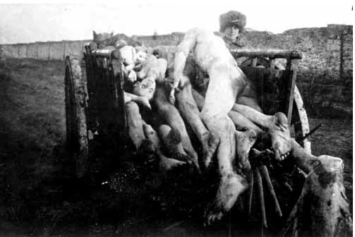 Corpse of famine victims transported to the cemetery (Kherson). PHOTOGRAPHS OF THE 1921-1923 FAMINE IN SOVIET UKRAINE